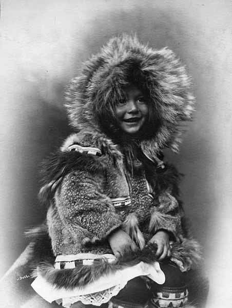 Inuit child in fur parka, Alaska, ca. 1903 Photographer: Dobbs, B.B. (Beverly Bennett) Subjects (LCTGM): Eskimos--Children--Alaska Eskimos--Clothing & dress--Alaska Fur garments Digital Collection: Alaska, Western Canada and United States Collection Item Number: AWC3212 Persistent URL: Visit Special Collections page for information on ordering a copy. University of Washington Libraries. Digital Collections